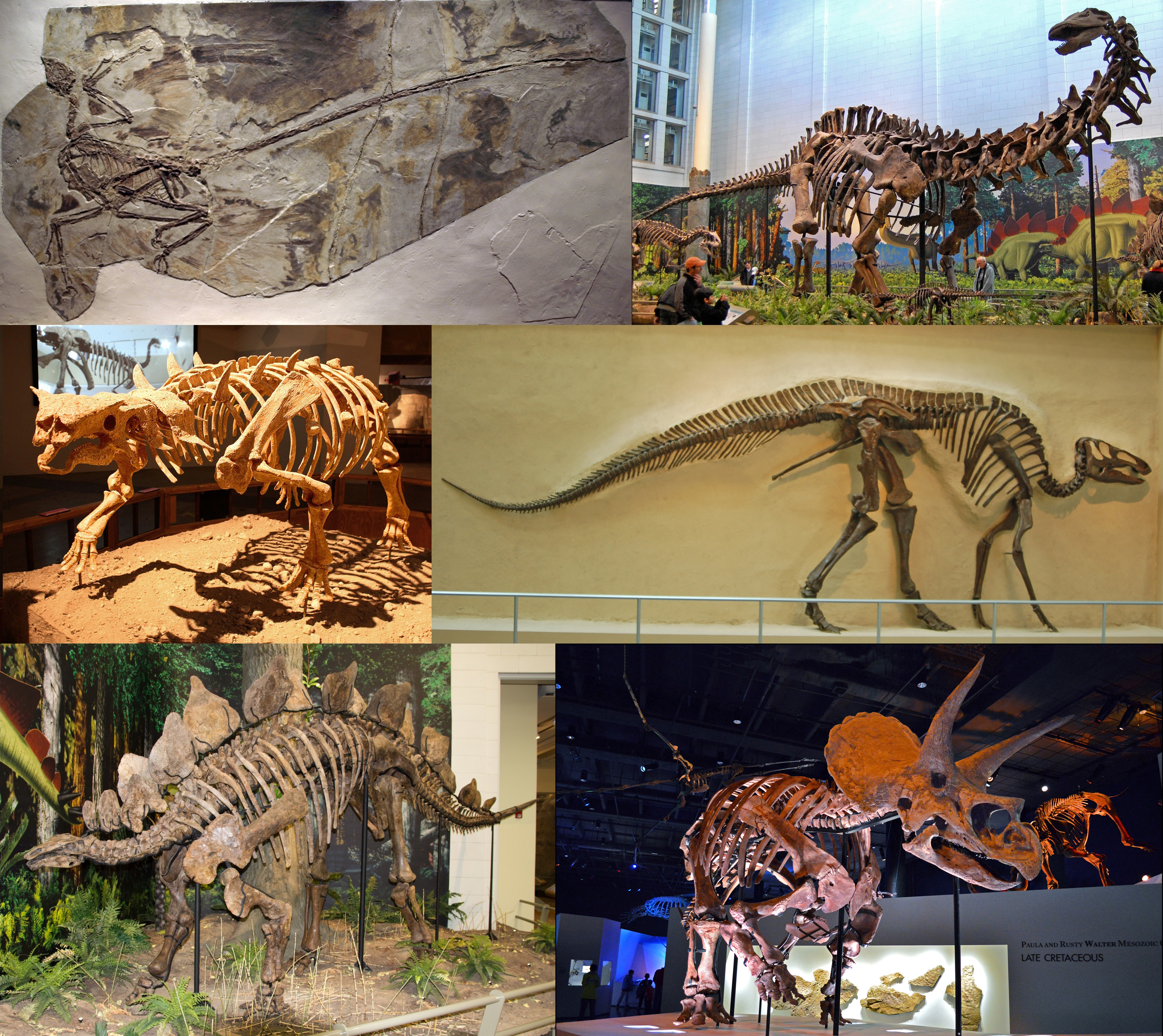 Montage of six dinosaur fossils: (clockwise from top left) Microraptor gui, Apatosaurus louisae, Edmontosaurus regalis, Triceratops horridus, Stegosaurus stenops, Pinacosaurus grangeri. This is a collection of six different works already found in Wikimedia Commons: File:MicroraptorGui-PaleozoologicalMuseumOfChina-May23-08.jpg File:Louisae.jpg File:Hadrosauridae - Edmontosaurus annectens.JPG File:Triceratops Specimen at the Houston Museum of Natural Science.JPG and File:Triceratops Specimen at the Houston Museum of Natural Science v01.jpg File:Stegosaurus ungulatus.jpg File:Pinacosaurus.jpg All of them are either under a free license already in Wikimedia Commons or in the public domain